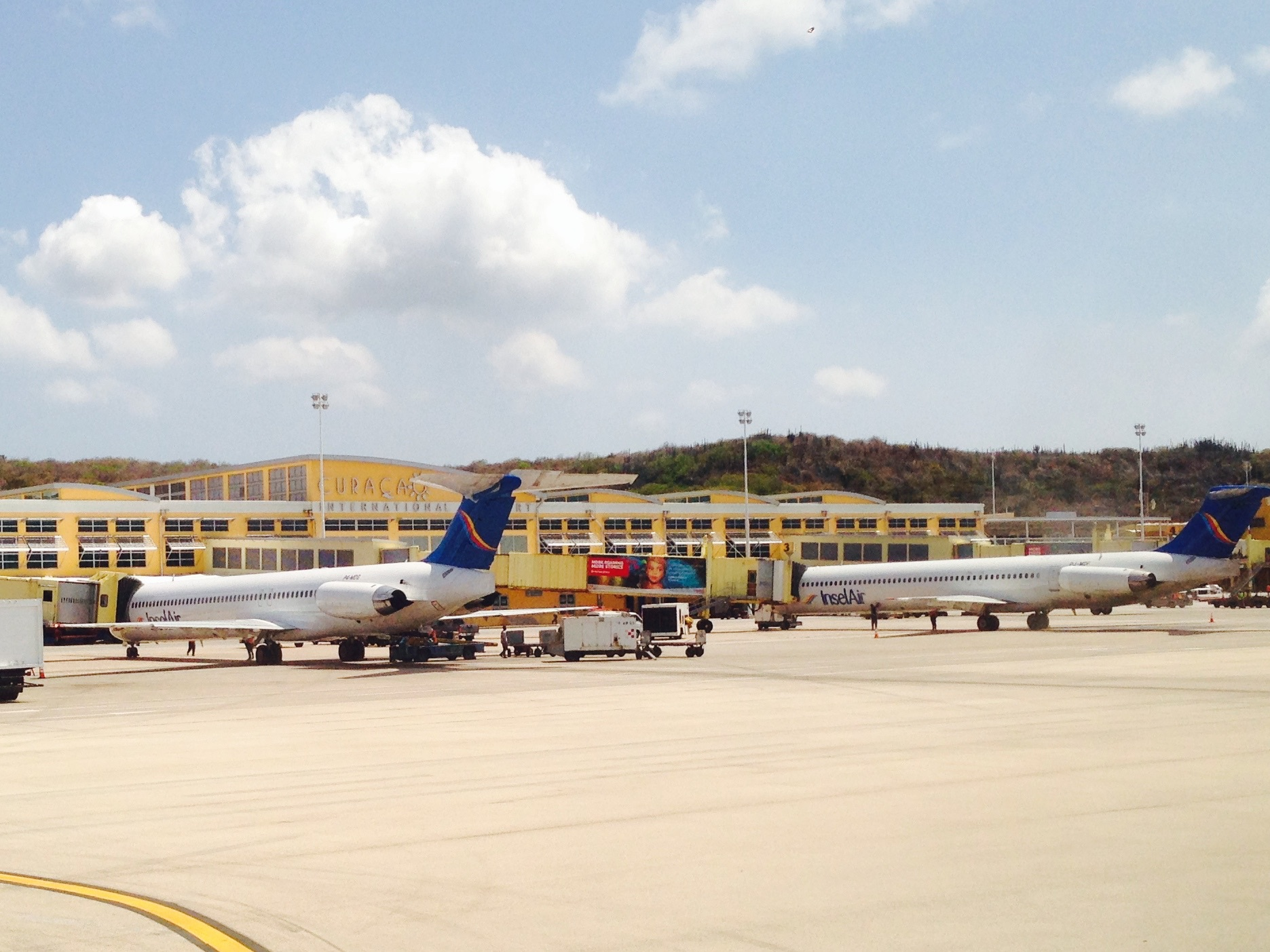 Insel Air MD-80 aircraft at Hato International Airport